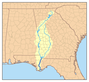 Map of the Apalachicola Basin (ACF Basin) watershed and main tributaries — in the Southeastern United States. With the Apalachicola River highlighted, post confluence. I, Pfly, created it based on USGS data.